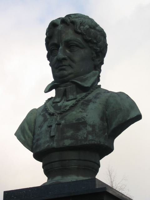 Statue of Frans Michael Franzén at Franzéninpuisto park in Oulu, Finland.